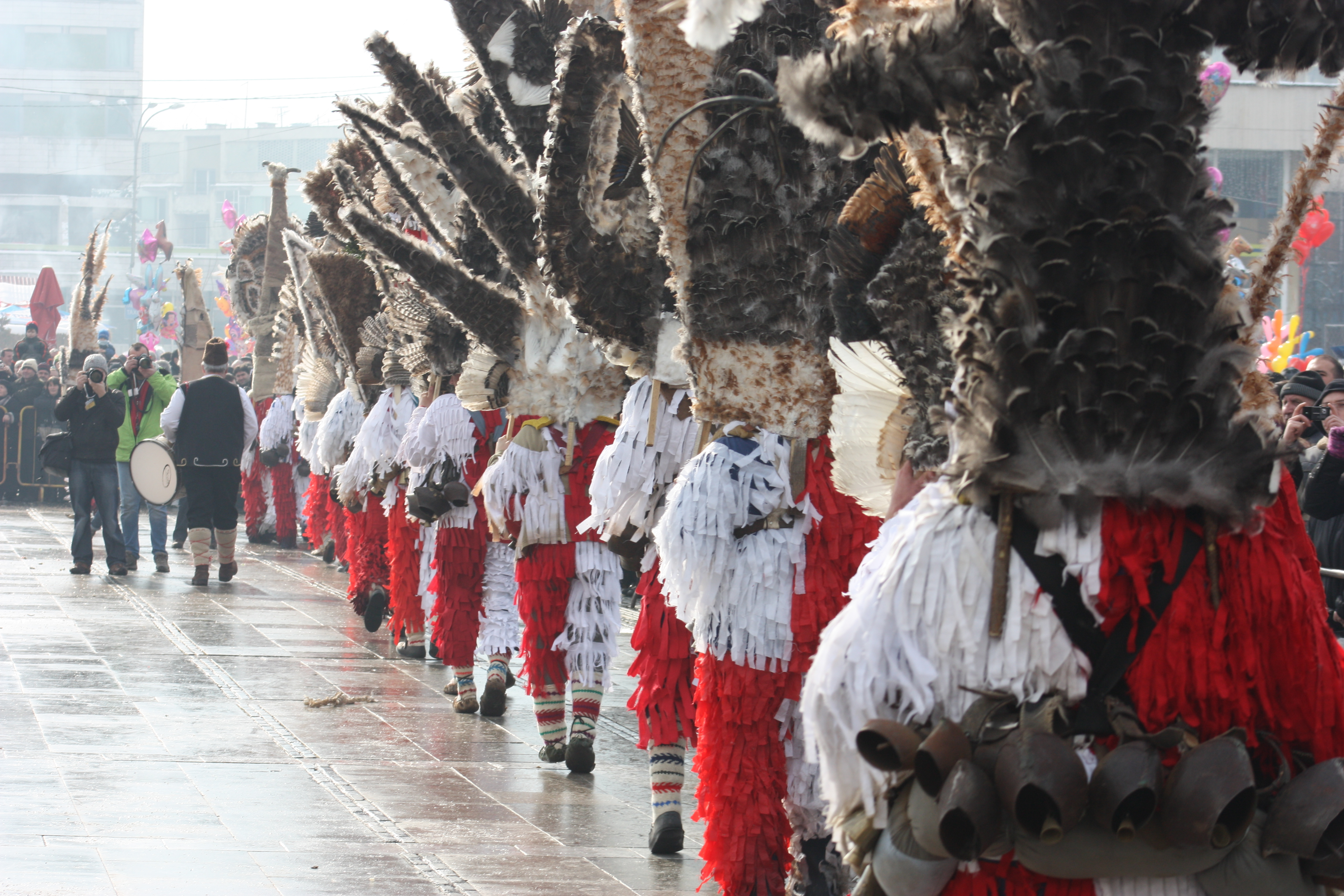 The kukeri perform at the XIX Kukers' Festival in Pernik, Bulgaria, 42°36′N 23°02′E